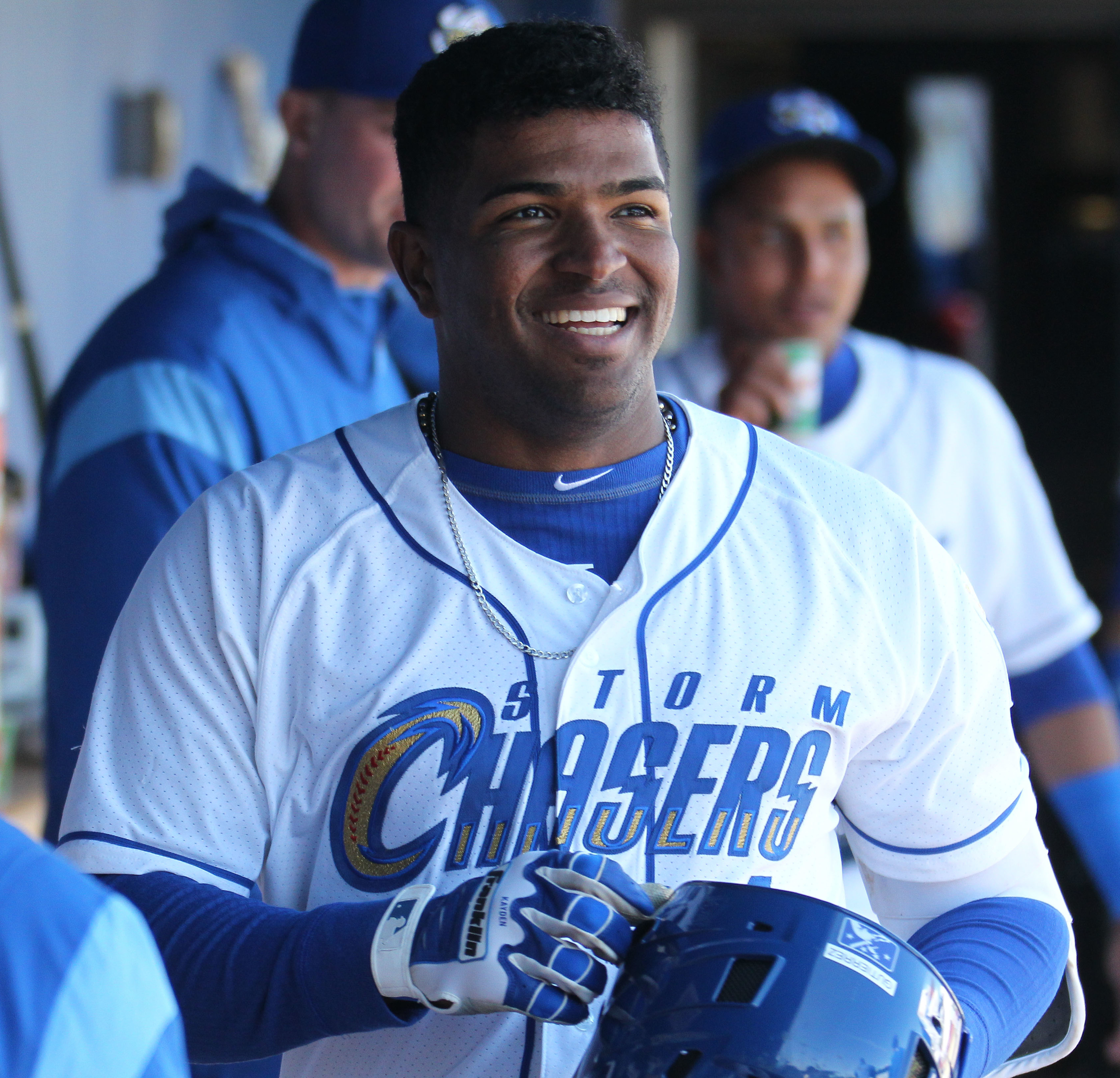 Kelvin Gutierrez in the dugout at Werner Park with the Omaha Storm Chasers in 2019